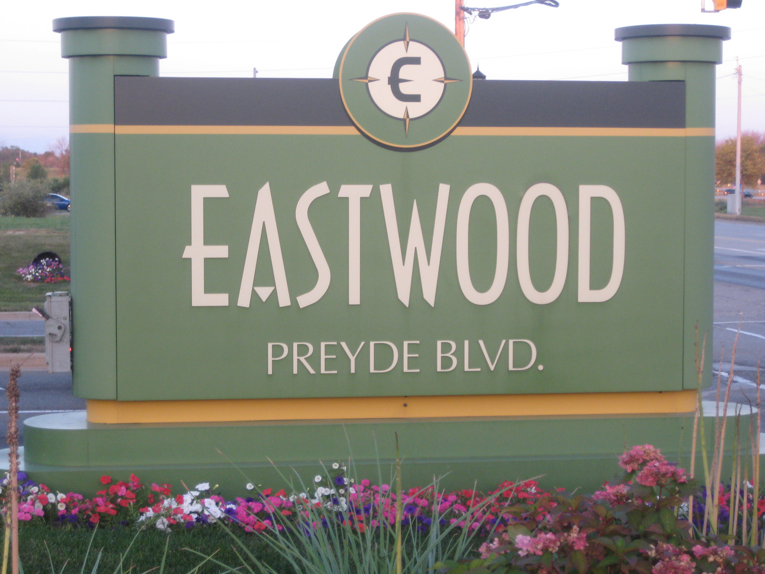 Eastwood Towne Center entrance sign, Preyde Blvd and Lake Lansing Road near US-127, Lansing Township, Michigan